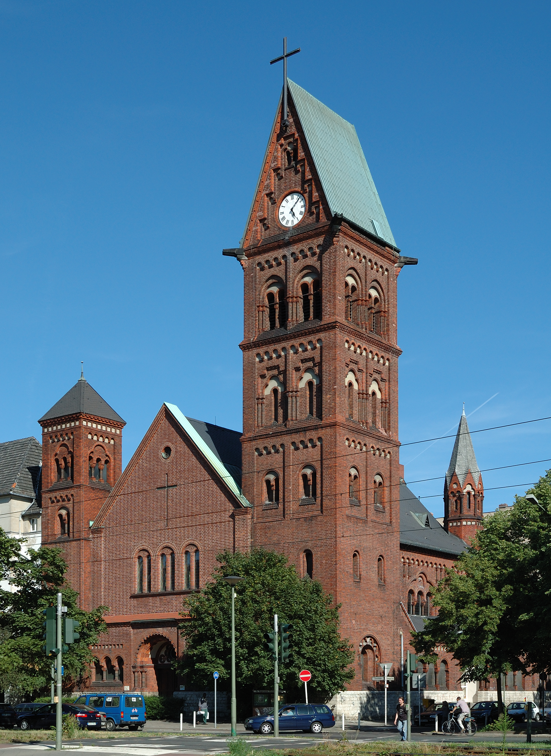 Capernaum Church in Berlin-Wedding, Seestraße 35.